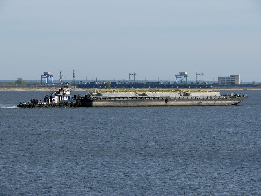 Kaniv Hydroelectric Station on the Dnieper River in Kaniv, Cherkasy Oblast, Ukraine